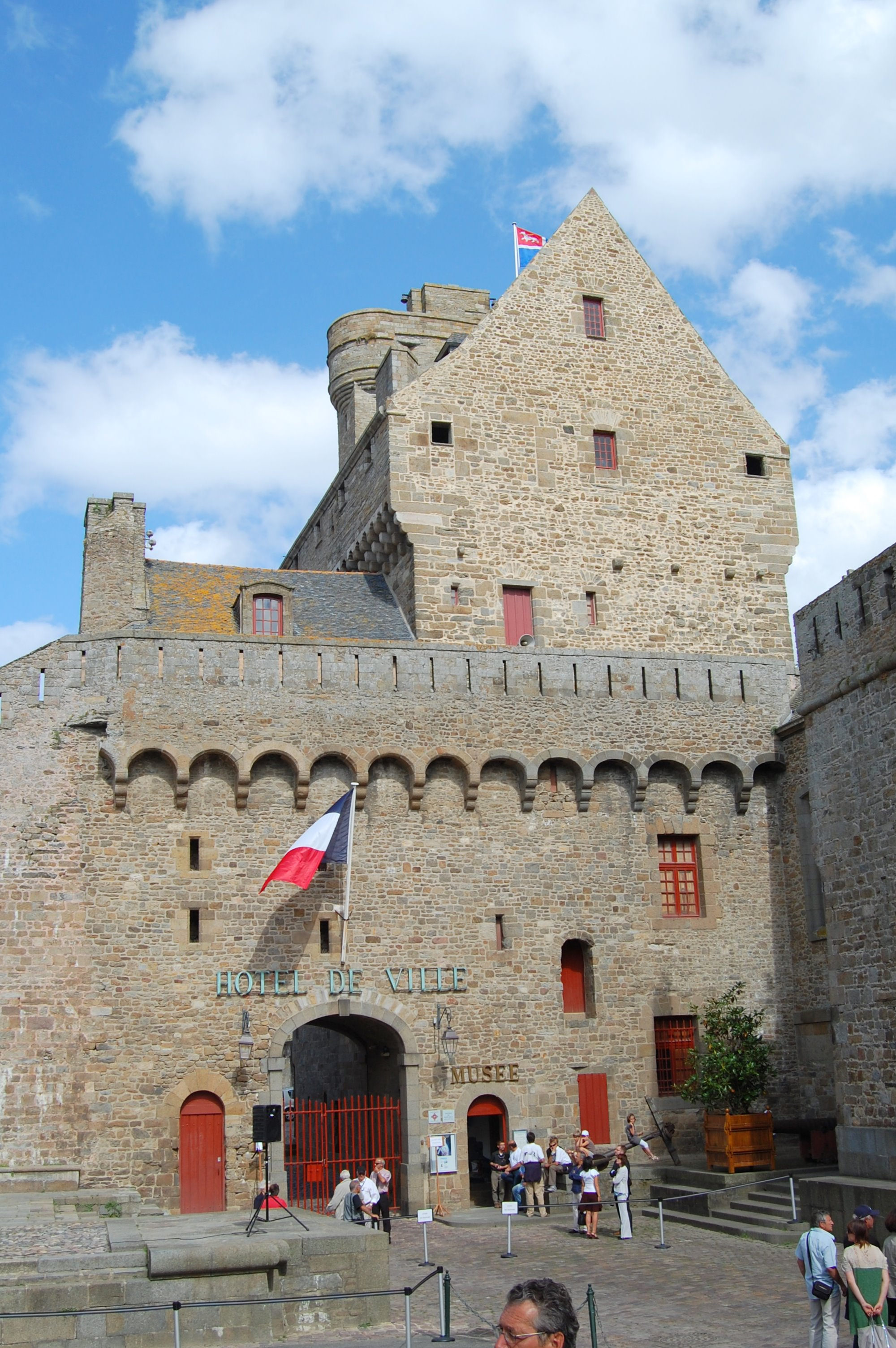 Entrance of the museum and town hall of Saint-Malo